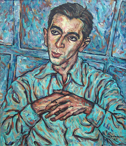 Carlos Alberto Petrucci: Retrato de José Lewgoy, óleo sobre tela, 1947, acervo do Museu Museu de Arte do Rio Grande do Sul Ado Malagoli, Porto Alegre, Brasil.